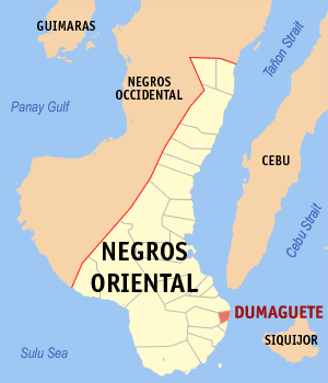 Map of Negros Oriental showing the location of Dumaguete City